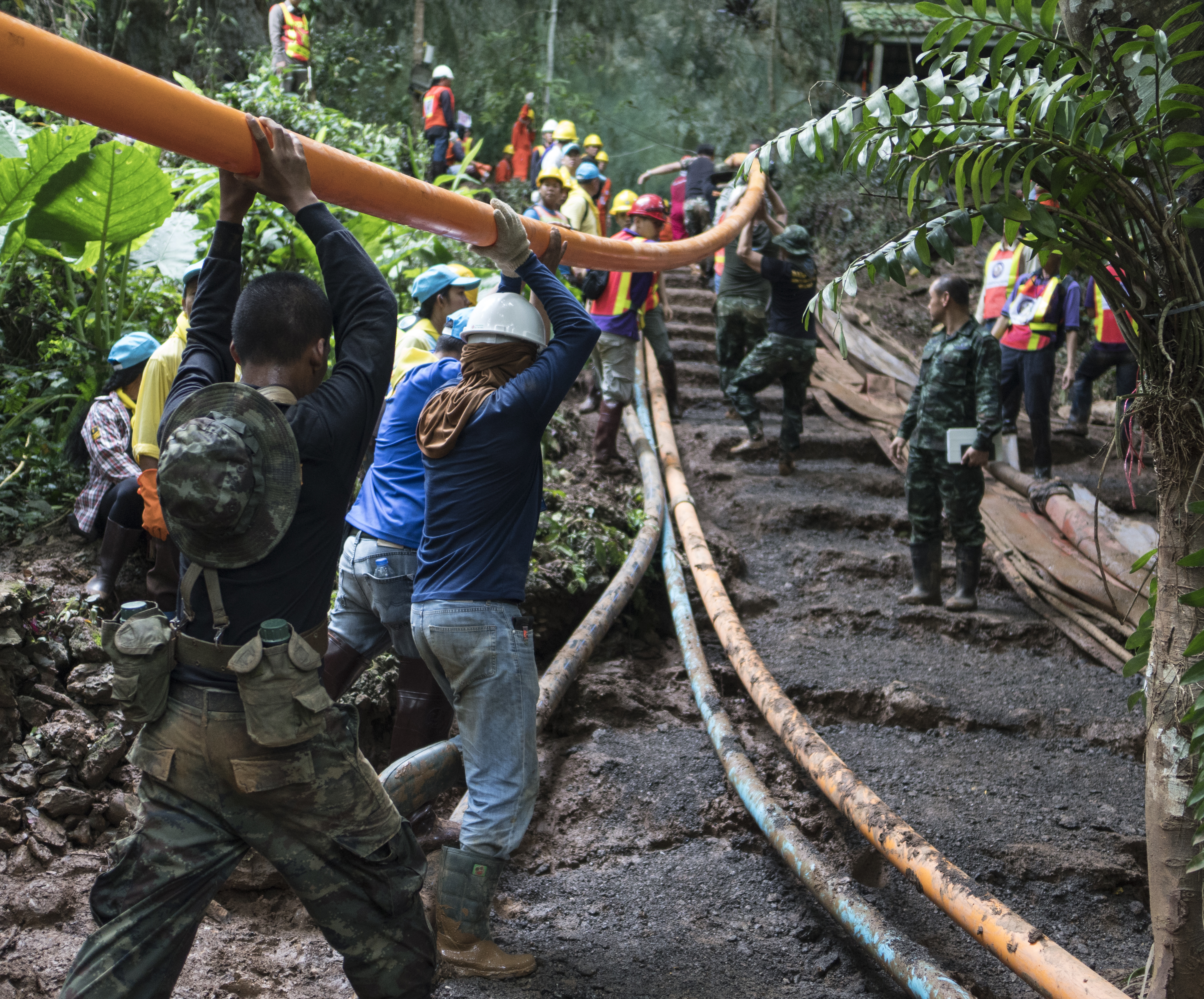 Thai rescue authorities work together to support the staging of equipment for pumping operations on 2 July 2018, at Chiang Rai, Thailand. (U.S. Air Force photo by Capt. Jessica Tait)